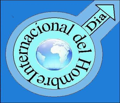 International Men's Day - logo